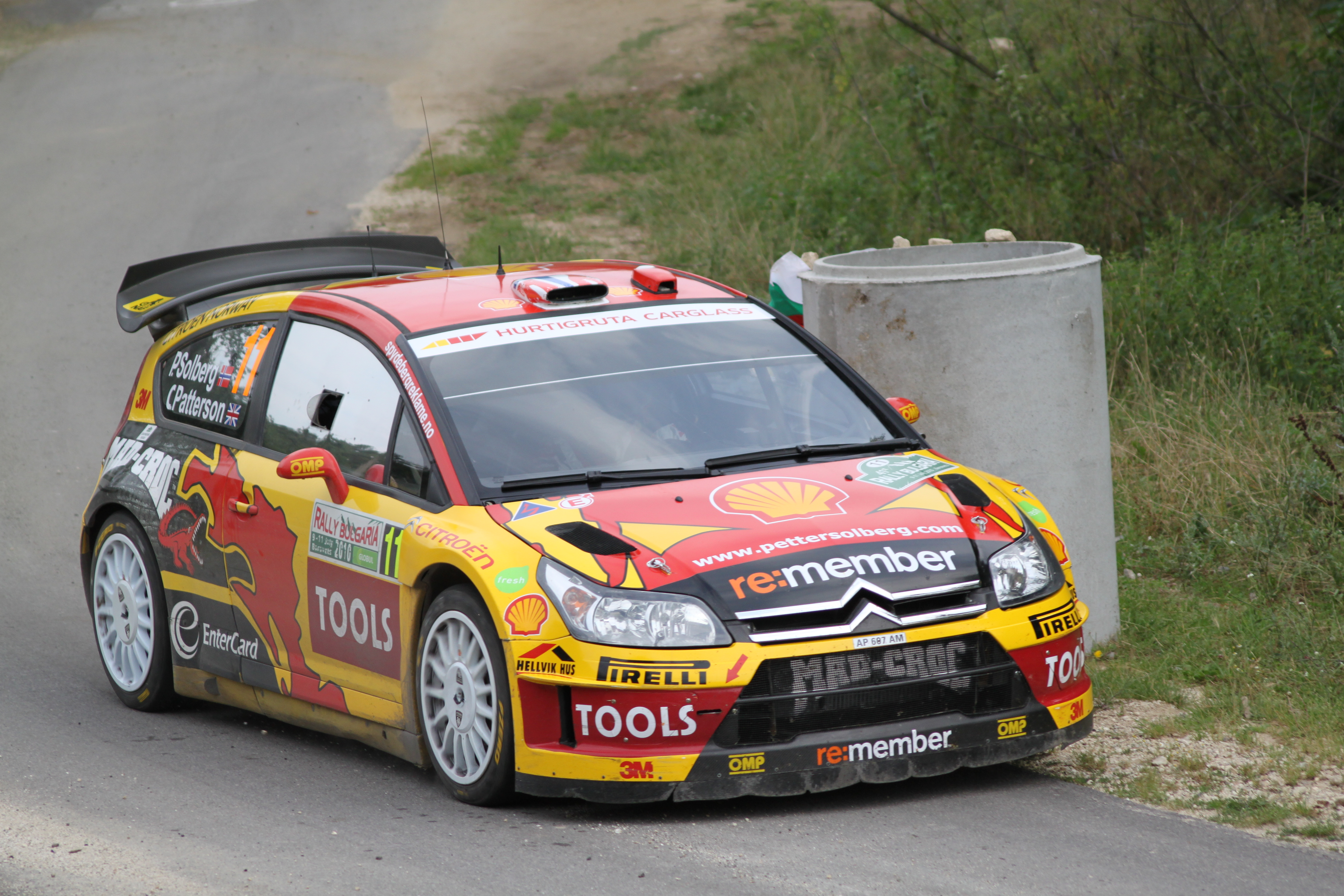 Petter Solberg in SS3 "Lubnitsa", 41'st Rally Bulgaria, 2010